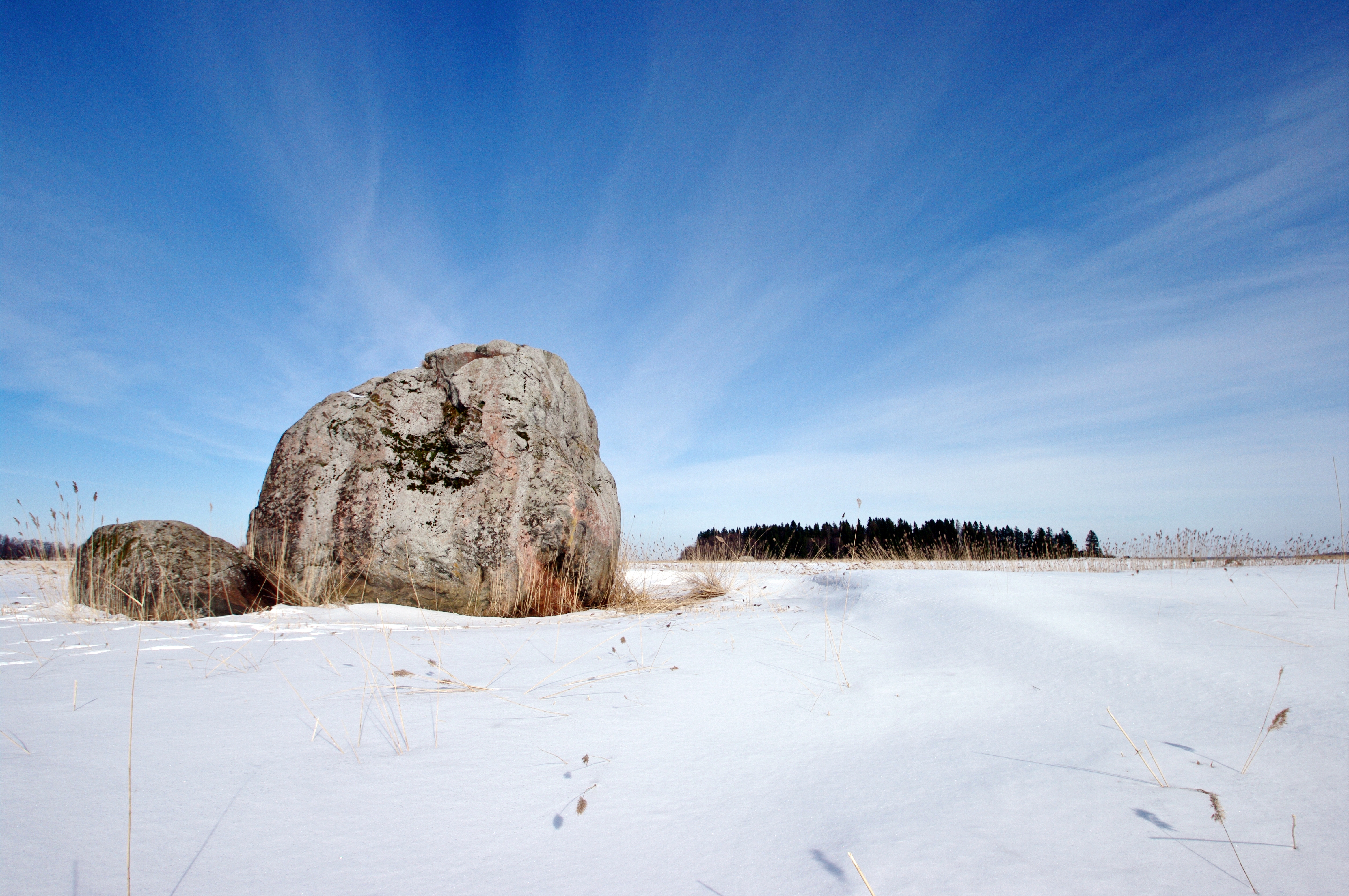 Tiirukivi boulder